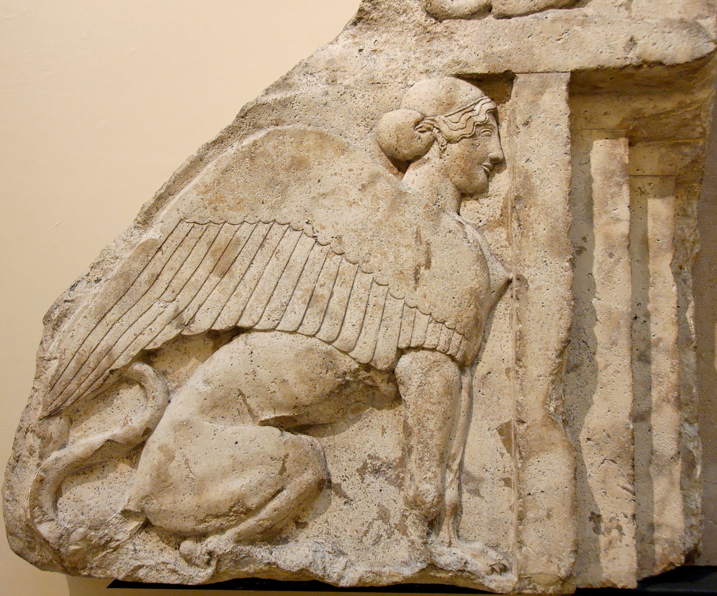 Guardian sphinx facing right. Left panel from a gable attributed to Building H in the Acropolis of Xanthos in Lycia, ca. 460 BC.